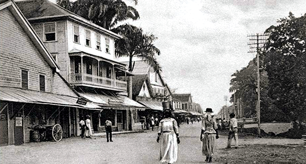 Strand, New Amsterdam, British Guiana